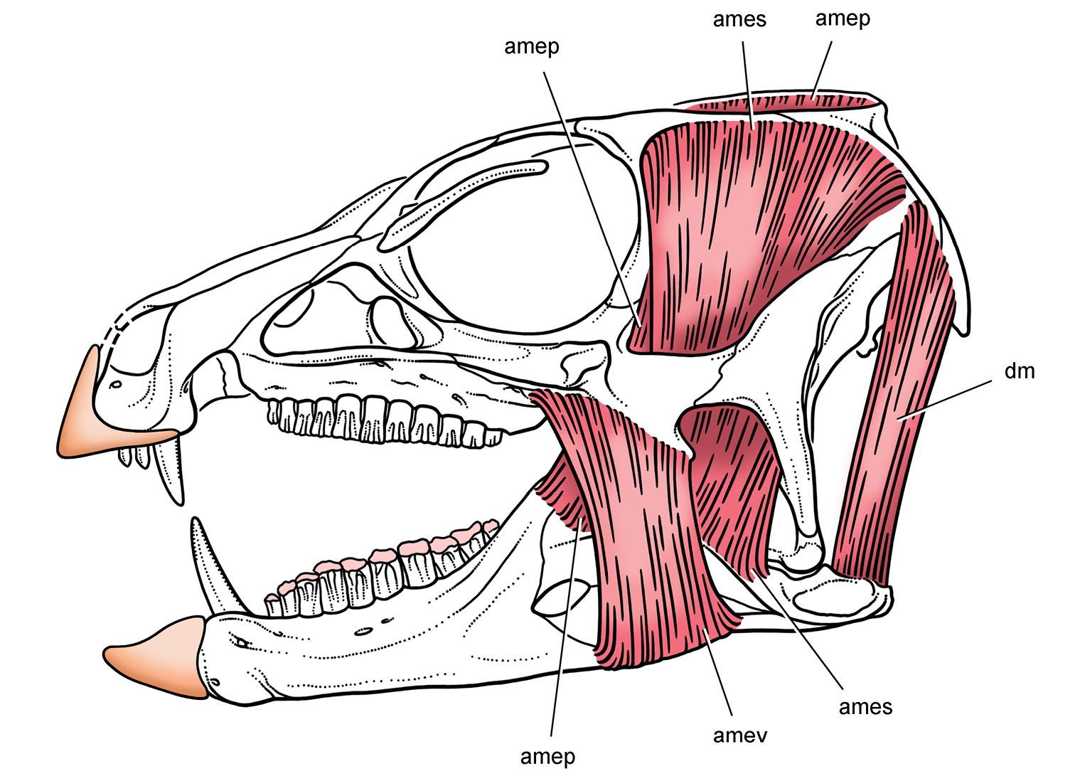 Jaw musculature and keratin sheathing in Heterodontosaurus from the Lower Jurassic Upper Elliot and Clarens formations of South Africa. Reconstruction of select jaw muscles and keratin sheathing of upper and lower bills supported in this study. Pink tone indicates wear facets. Abbreviations: amep adductor mandibulae externus profundus ames adductor mandibulae externus superficialis amev adductor mandibulae externus ventralis dm depressor mandibulae.